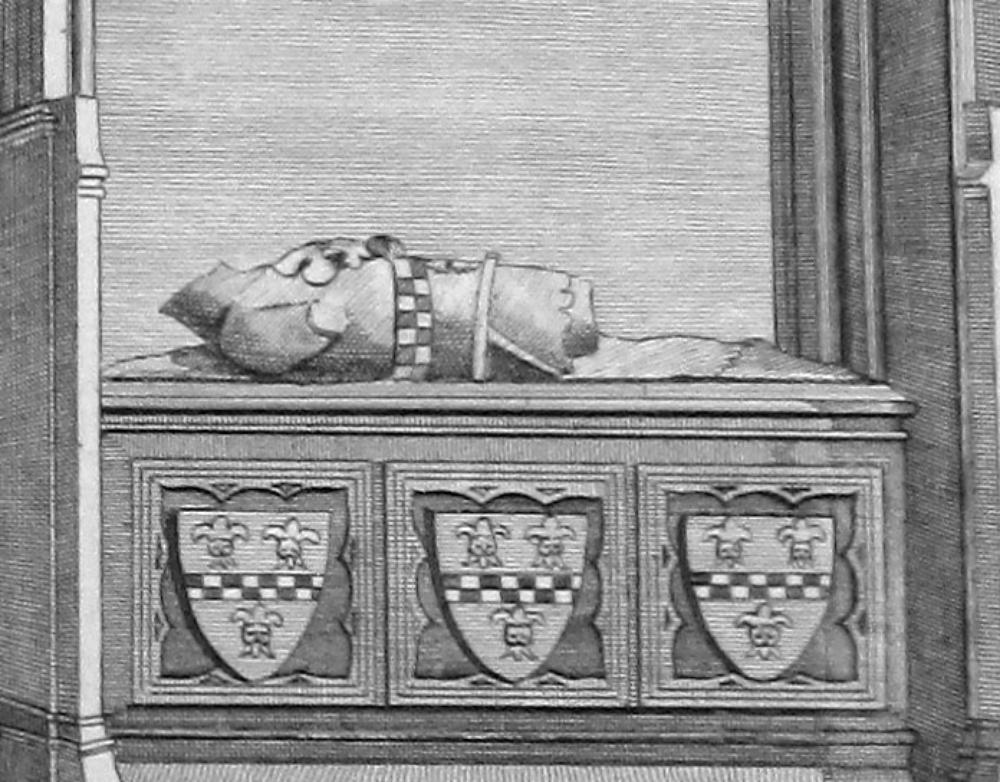 Chest-tomb monument and effigy of Nicholas de Cantilupe, 3rd Baron Cantilupe (d.1355), Angel Choir, Lincoln Cathedral. Effigy much mutilated, missing head, arms and legs. Arms shown are Cantilupe of Greasley, Nottinghamshire: Gules, a fess vair between three leopard's faces jessant-de-lys or. See full image